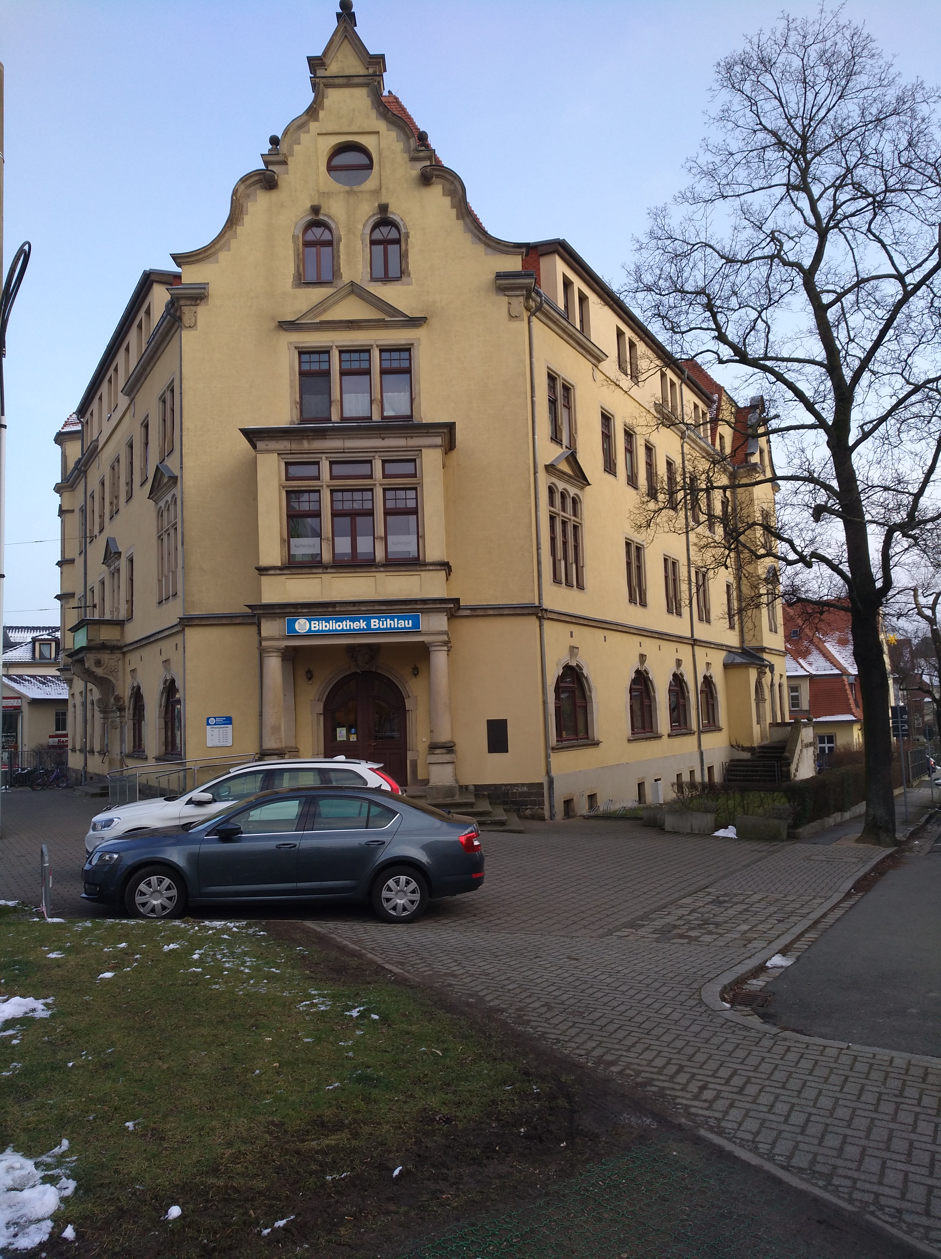 Former City Hall of Buhlau (near Dresden), situation of Feb. 2018